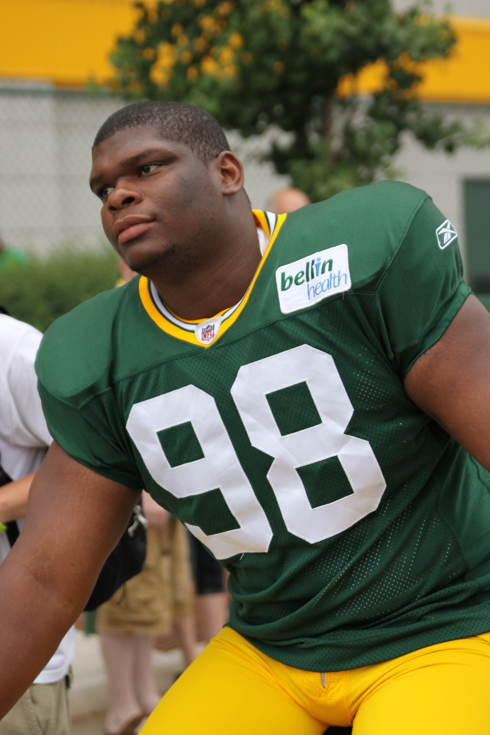 Green Bay Packer defensive end C.J. Wilson, riding a fan's bicycle at training camp, August 1, 2011, Green Bay Wisconsin